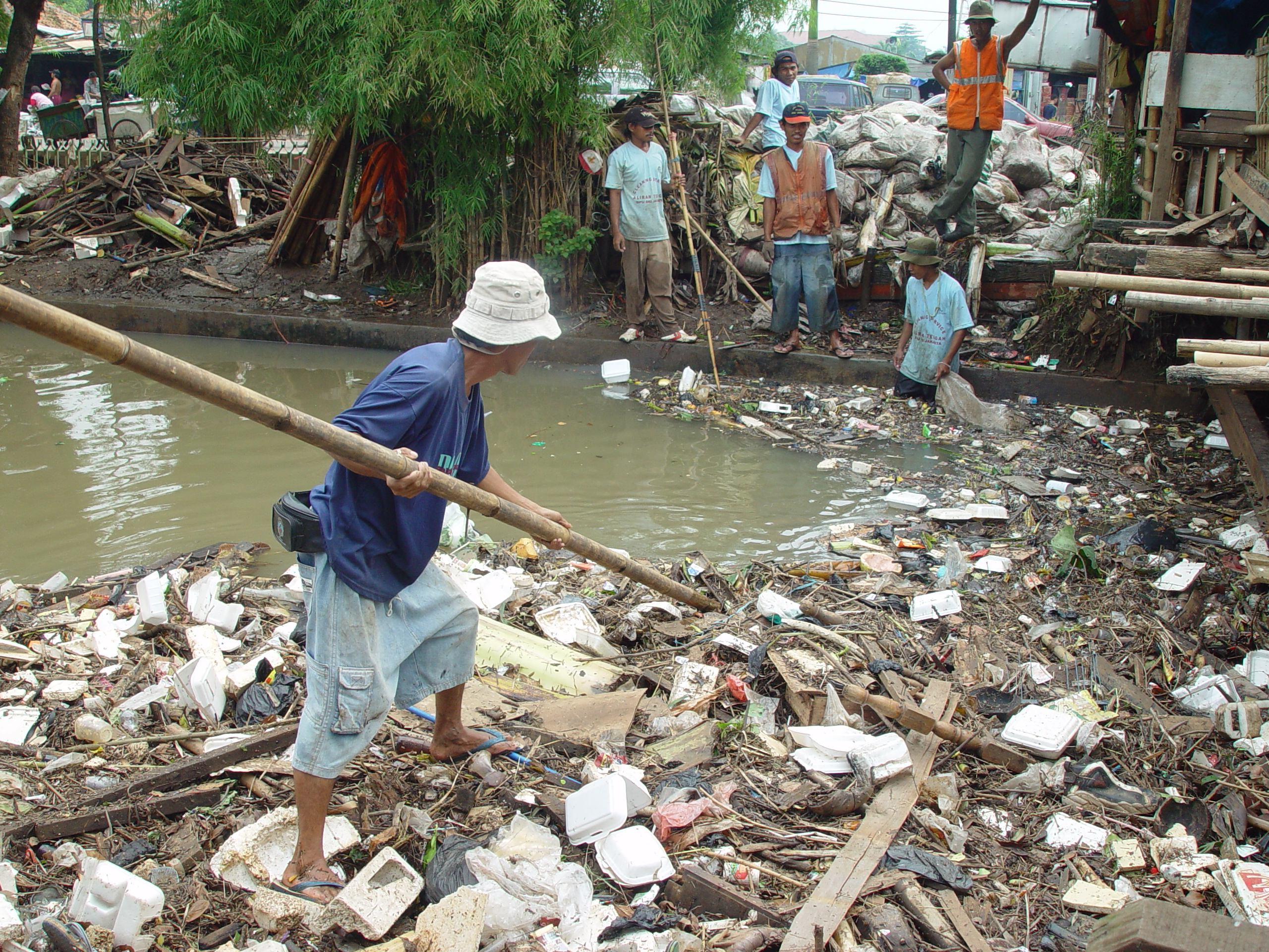 Slum life, Jakarta Indonesia.